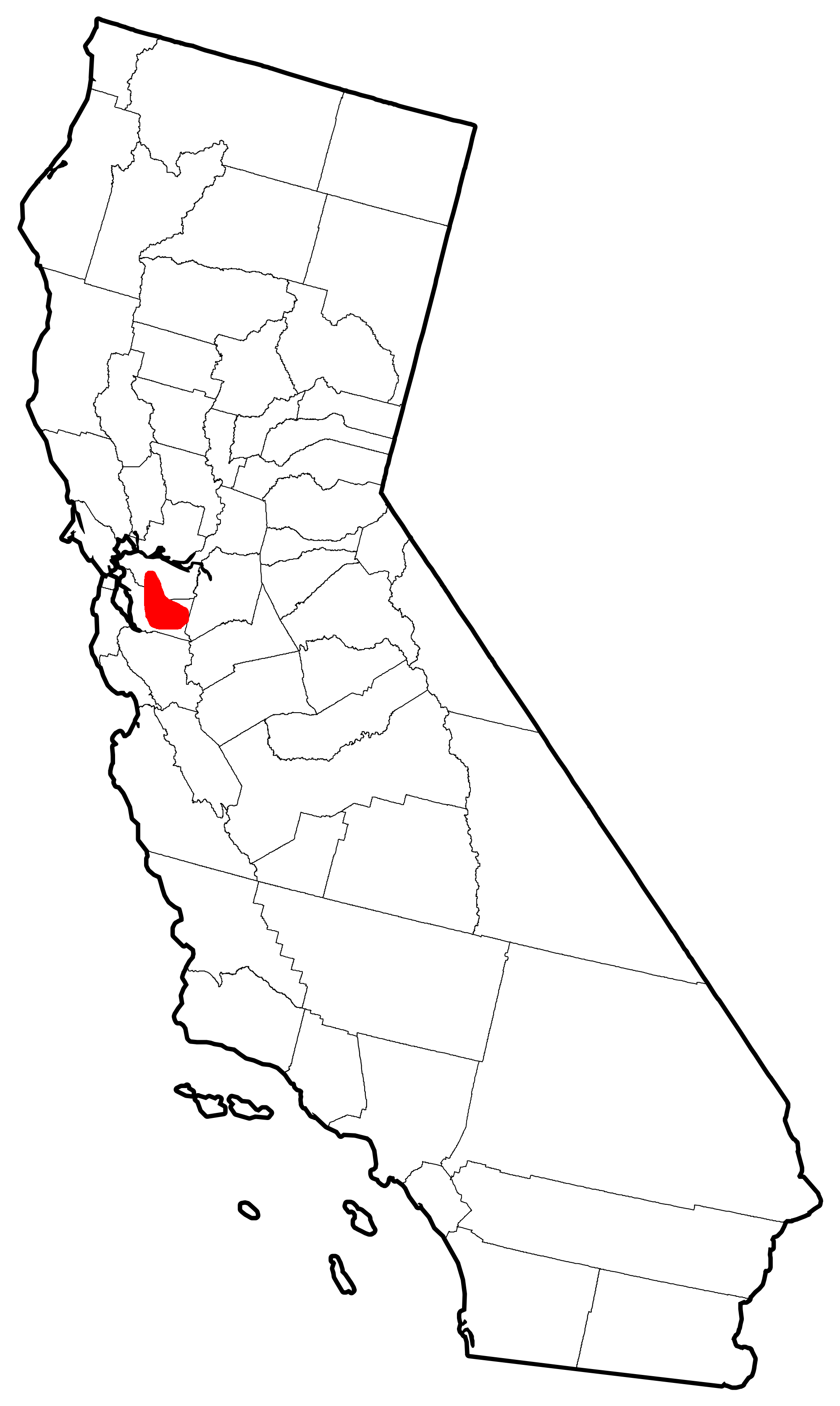 Location of the Tri-Valley in California